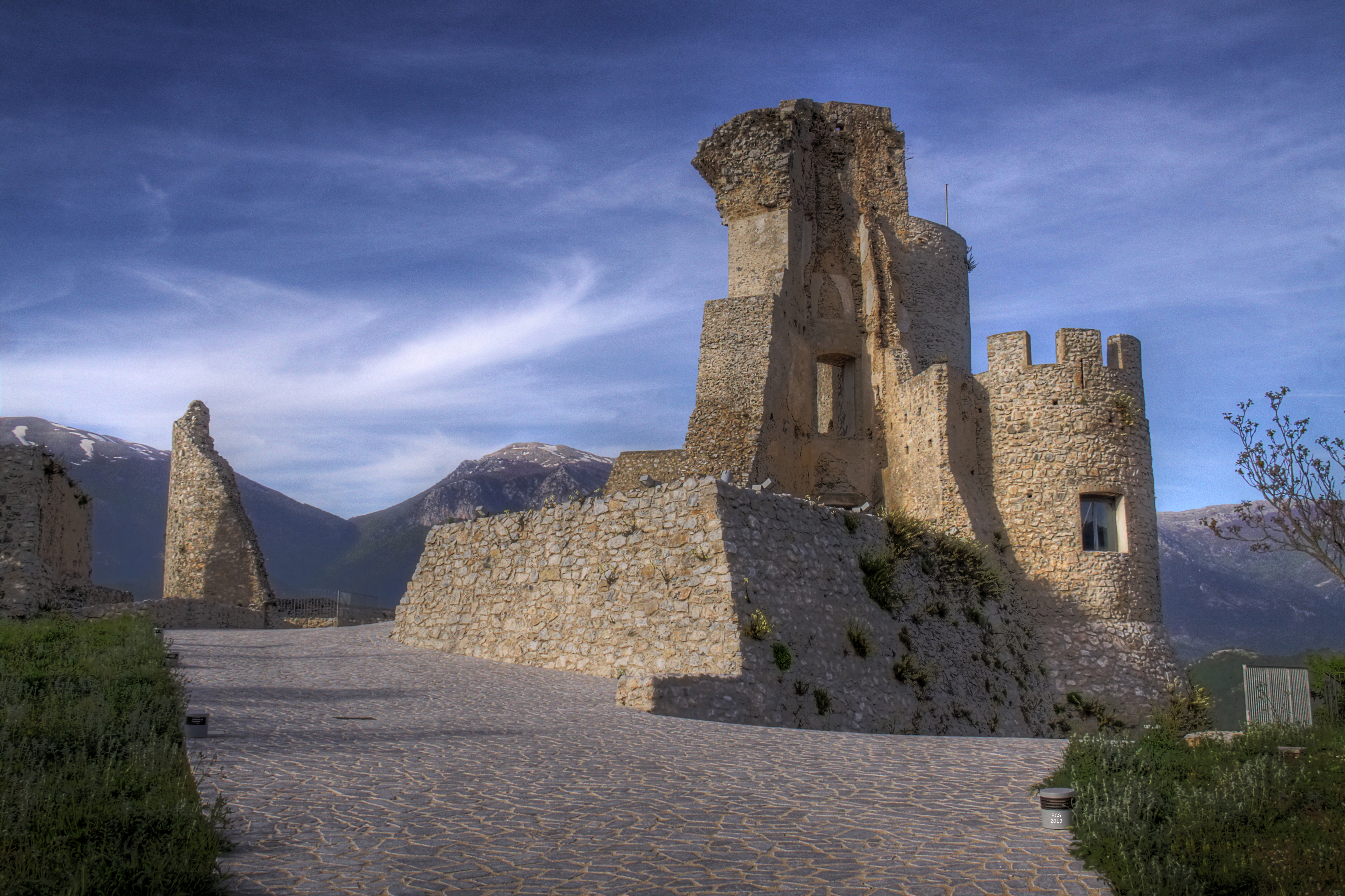 Norman fortress ruins built on top of an ancient Roman camp in Morano Calabro